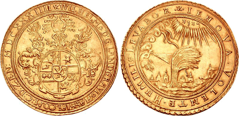 GERMANY, Hessen-Kassel. Wilhelm V. 1627-1637. AV Offstrike (Abschlag) from 1634 Doppeltaler (35.29 g, 12h). Kassel mint; Terentius Schmidt, mintmaster. Dated 1634. WILHELM9. D: G: LANDGRAVI9. HASSIÆ. COM: C: D: Z: E: N: MDCXXXIIII (clover), Hessian coat of arms within oval cartouche surmounted by three helmets, monogram TS between horns / IEHOVA • VOLENTE • HUMILIS • LEVABOR • (clover) •, willow tree being struck by lightning from clouds above, wind and rain blowing from left, radiant hwhy to right; in background, 6 houses. Cf. Schütz 834 (same dies, but in silver); Friedberg -. Near EF, a few edge marks, two small scratches in obverse fields. Unpublished; an apparently unique gold offstrike.